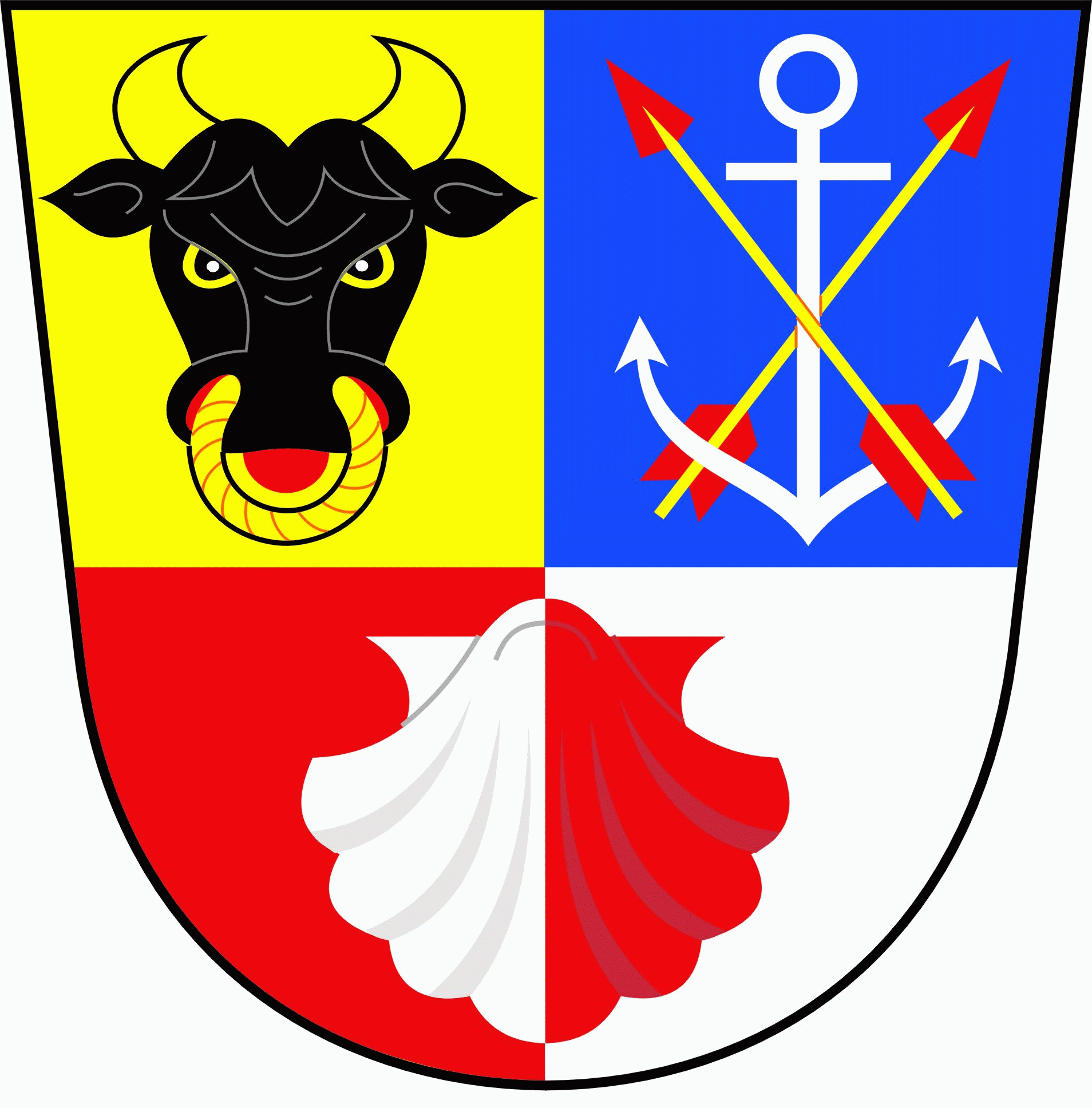 Municipal coat of arms of Koclířov village, Svitavy District, Czech Republic.